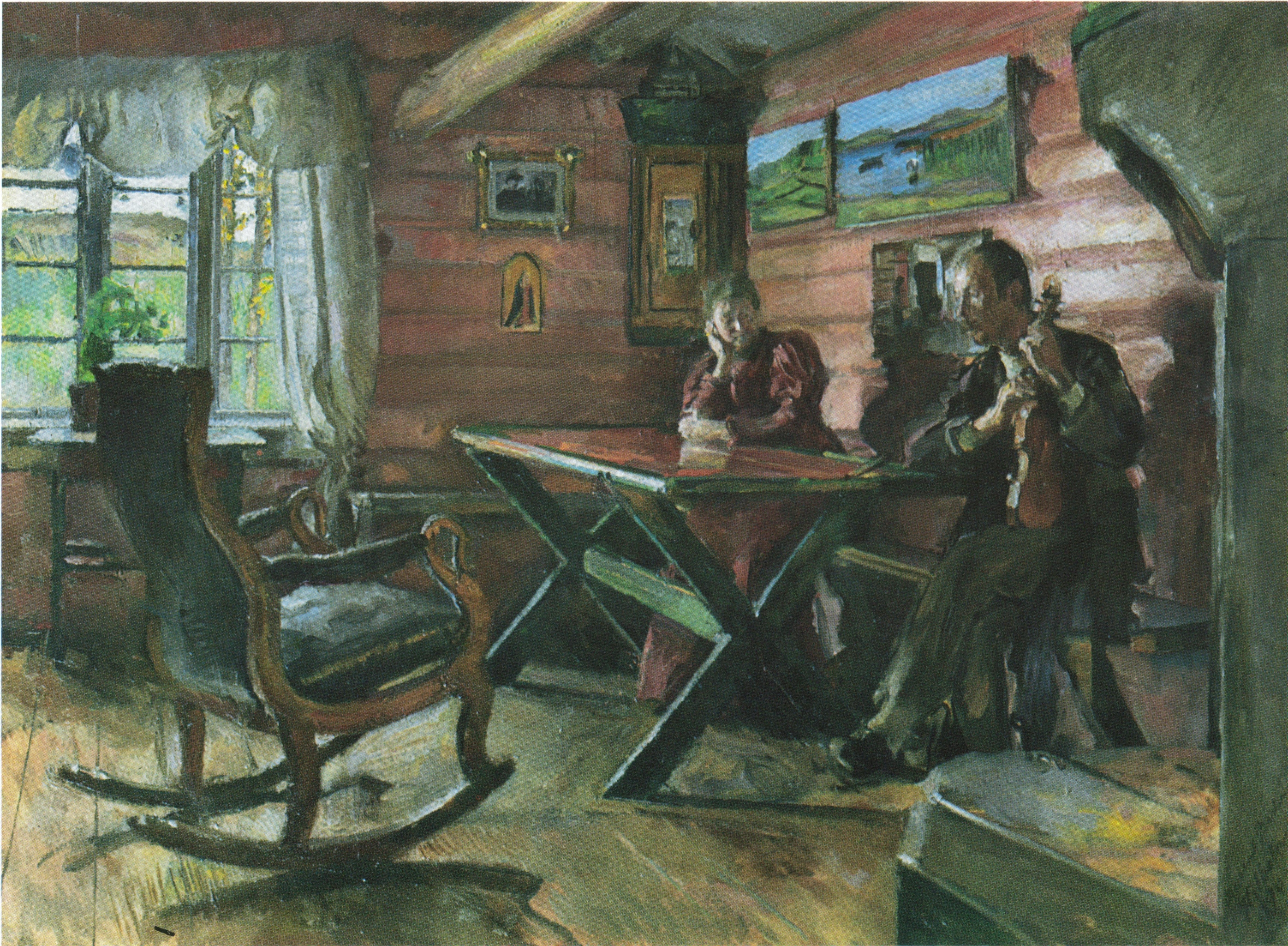 The persons in the painting are Hulda Garborg and Arne Garborg, Kolbotnstua was their home on the farm Kolbotn in Østerdalen from 1888. Two of the paintings hanging on the wall behind them can be identified as paintings done by Kitty Kielland. Harriet Backer and Kitty Kielland first met Hulda and Arne Garborg in Paris in 1885. They remained close friends for life.